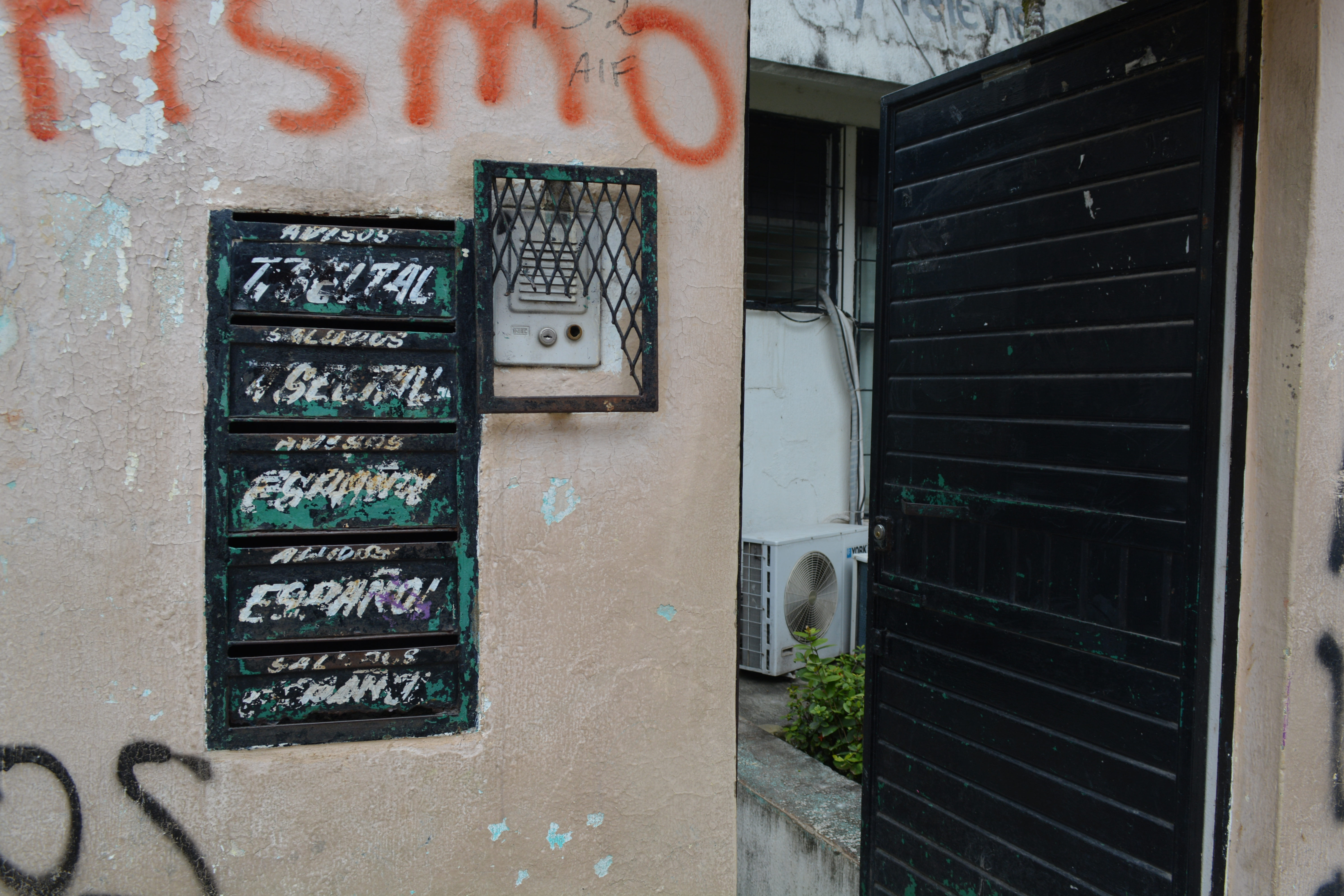 Multilingual mailbox in K'in radio station XEOCH-AM. Calle Segunda Sur Oriente Ocosingo, Chiapas.